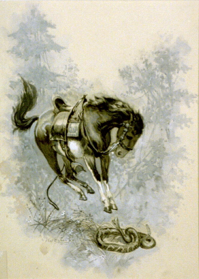 "Samanthy kills the rattlesnake". 1 drawing : wash. Published in: "The Kid" by Elizabeth B. Custer, St. Nicholas magazine, 27:976 (September 1900).